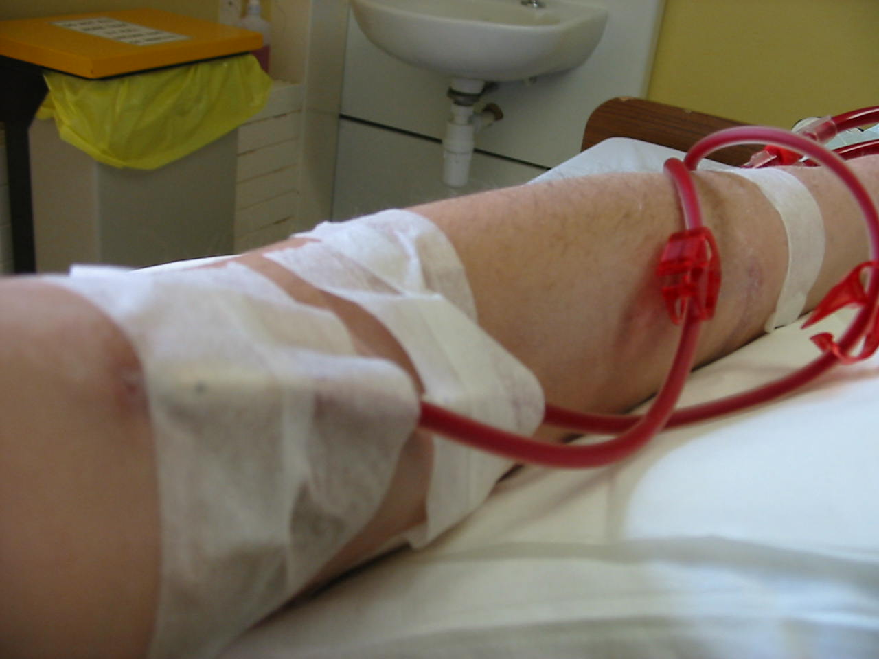 Plugged into dialysis